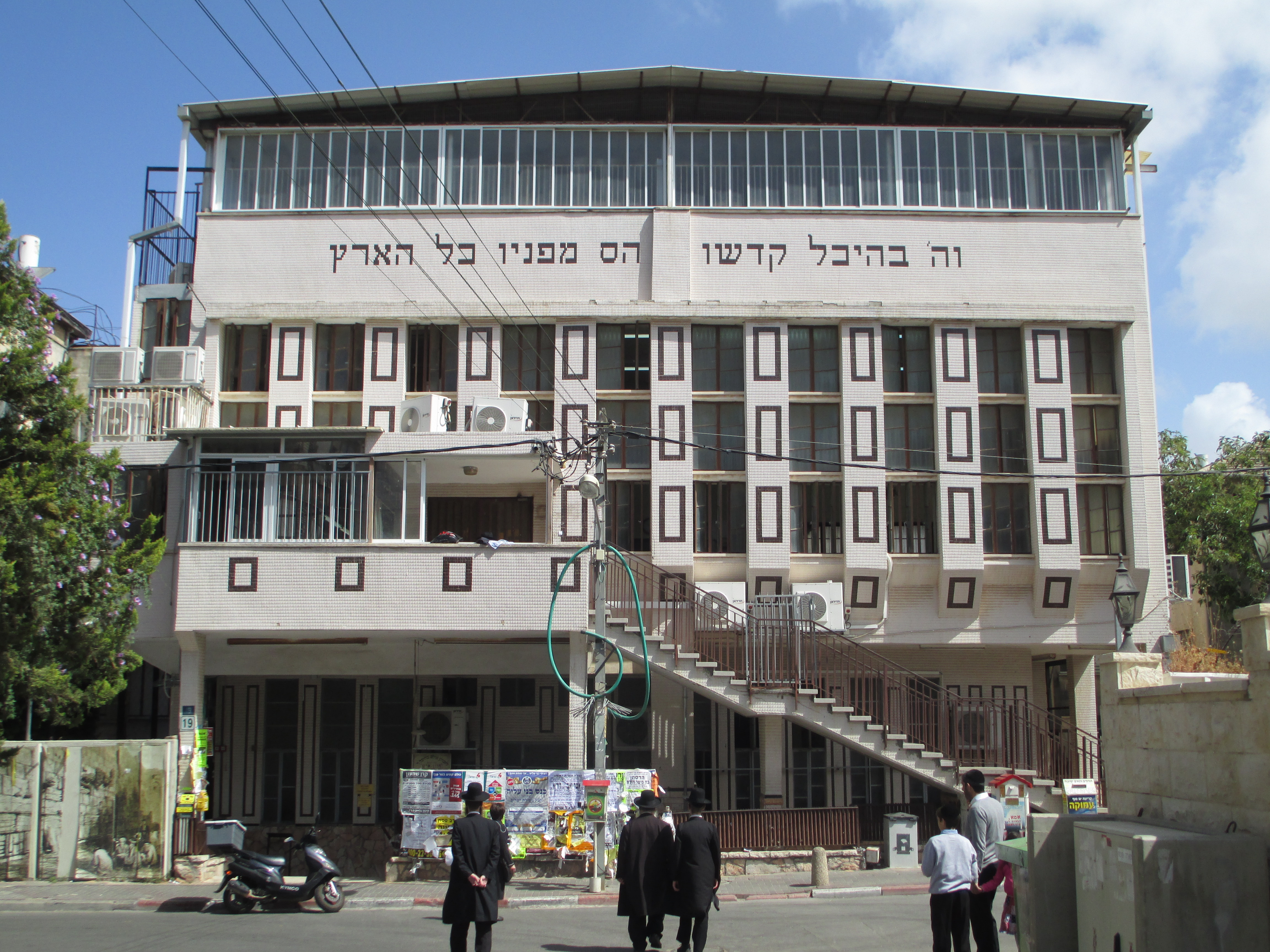 lederman synagogue in Bnei brak בית הכנסת לדרמן ברח' רשב"ם 19 בבני ברק